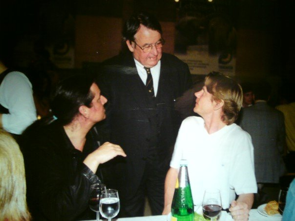 Dr Fred Kurt from University of Vienna and elephant trainer Dan Koehl, Tiergarten Schönbrunn, Vienna